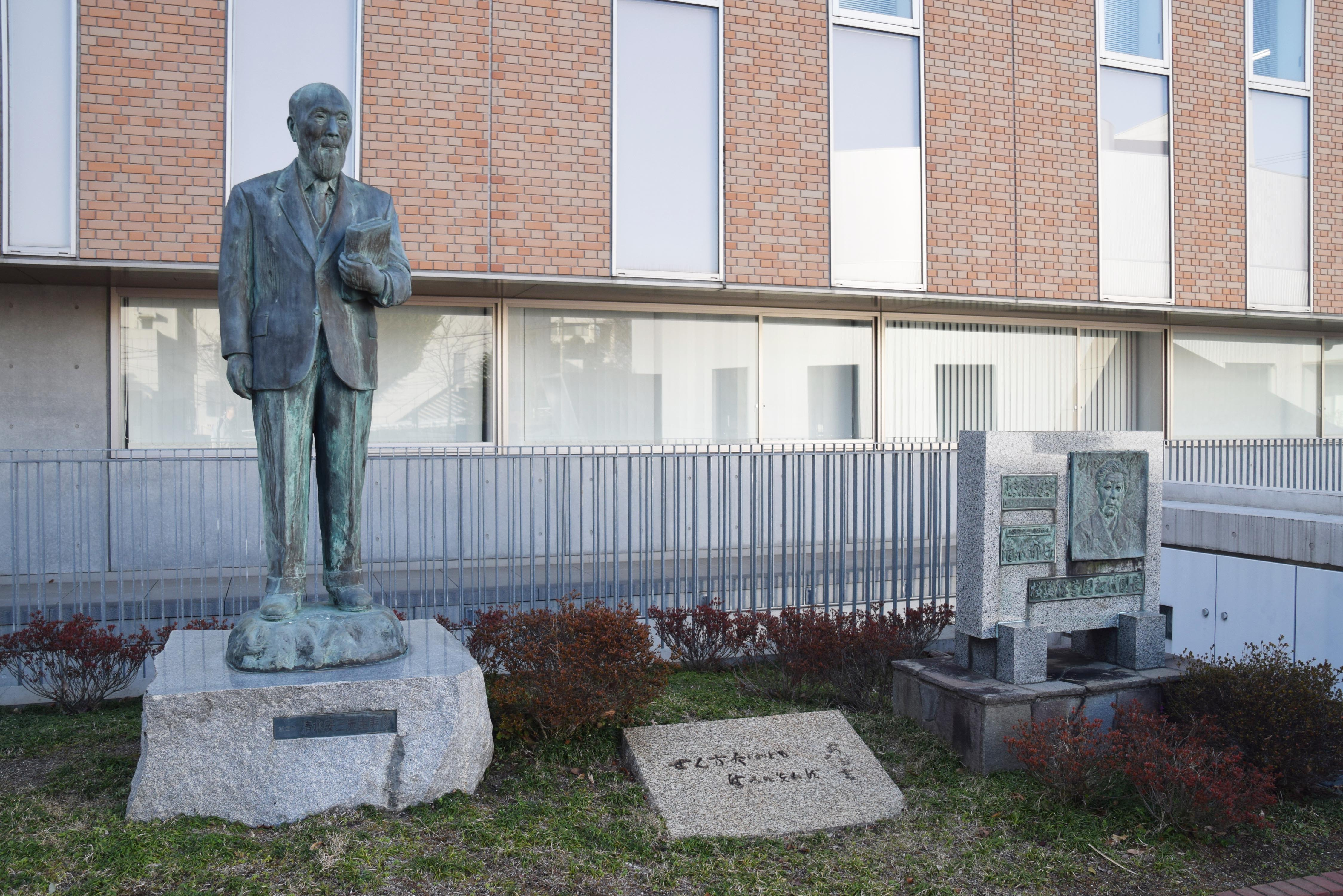 Yasuzo Shimizu and Yuko, his wife, at Obirin University